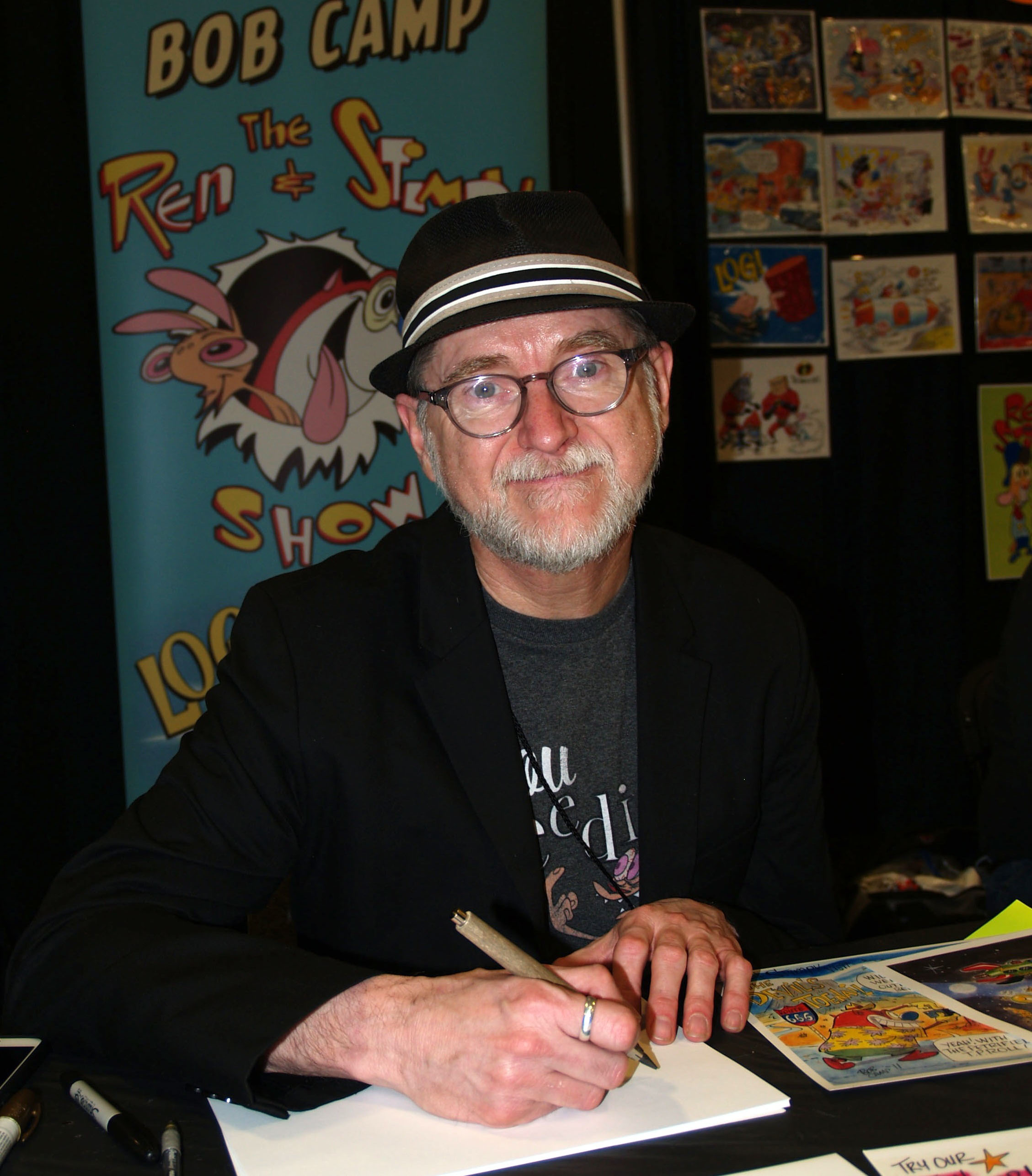 Animator and illustrator Bob Camp at the Meadowlands Exposition Center in Secaucus, New Jersey on April 11, 2015, Day 1 of the 2015 East Coast Comicon. This photo was created by Luigi Novi. It is not in the public domain, and use of this file outside of the licensing terms is a copyright violation.